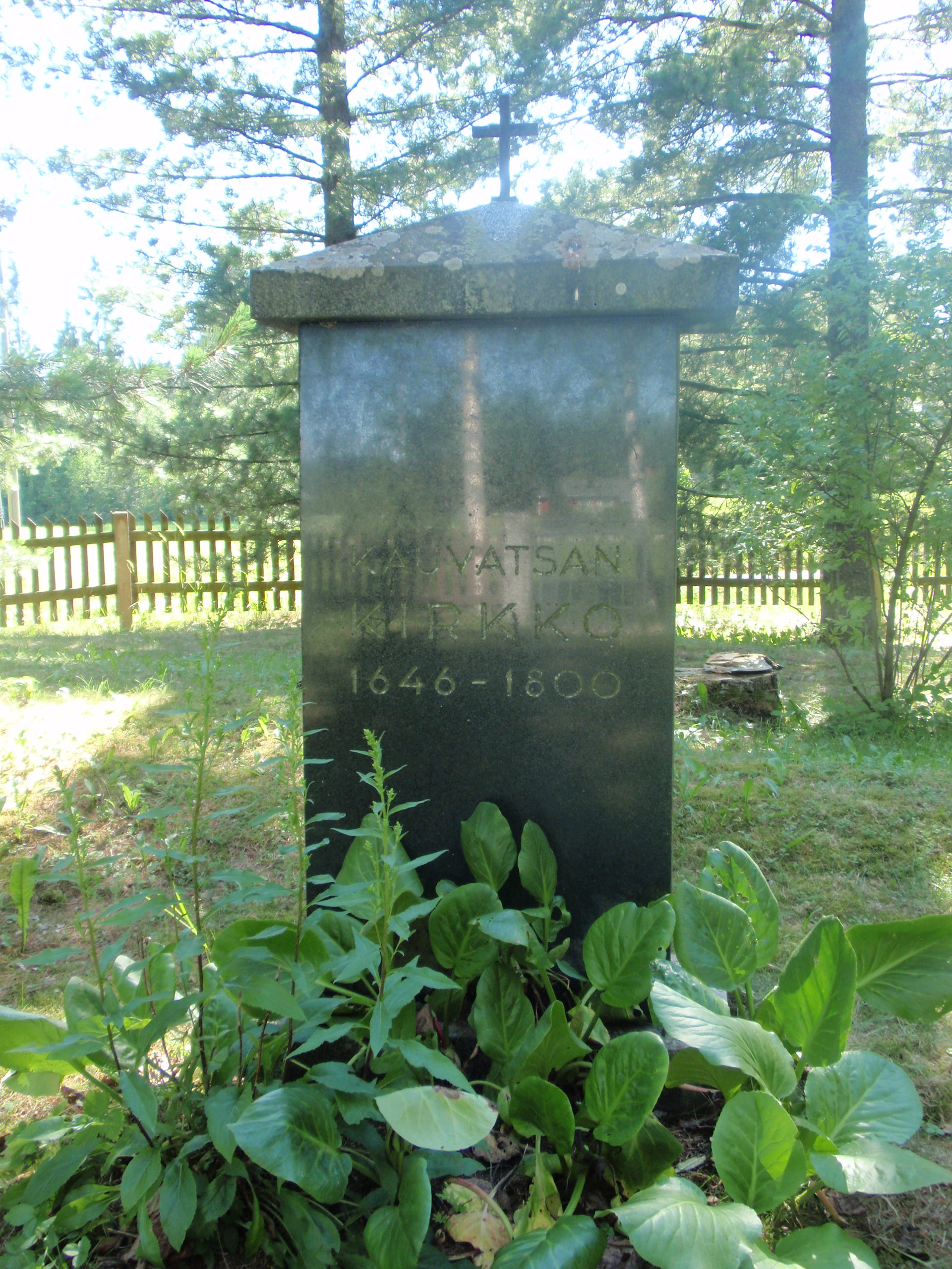 Stone at the site of old church of Kauvatsa. Kokemäki, Finland.